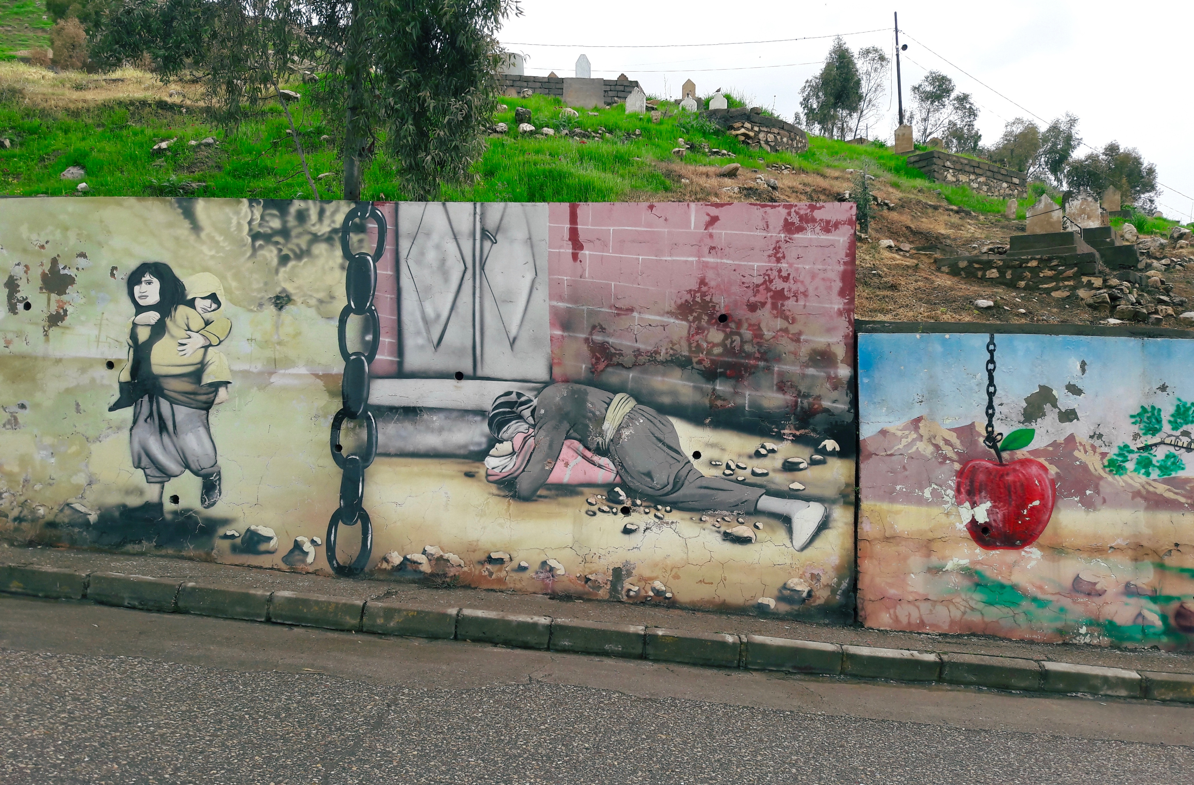 Mural in Akre of the Halabja attack